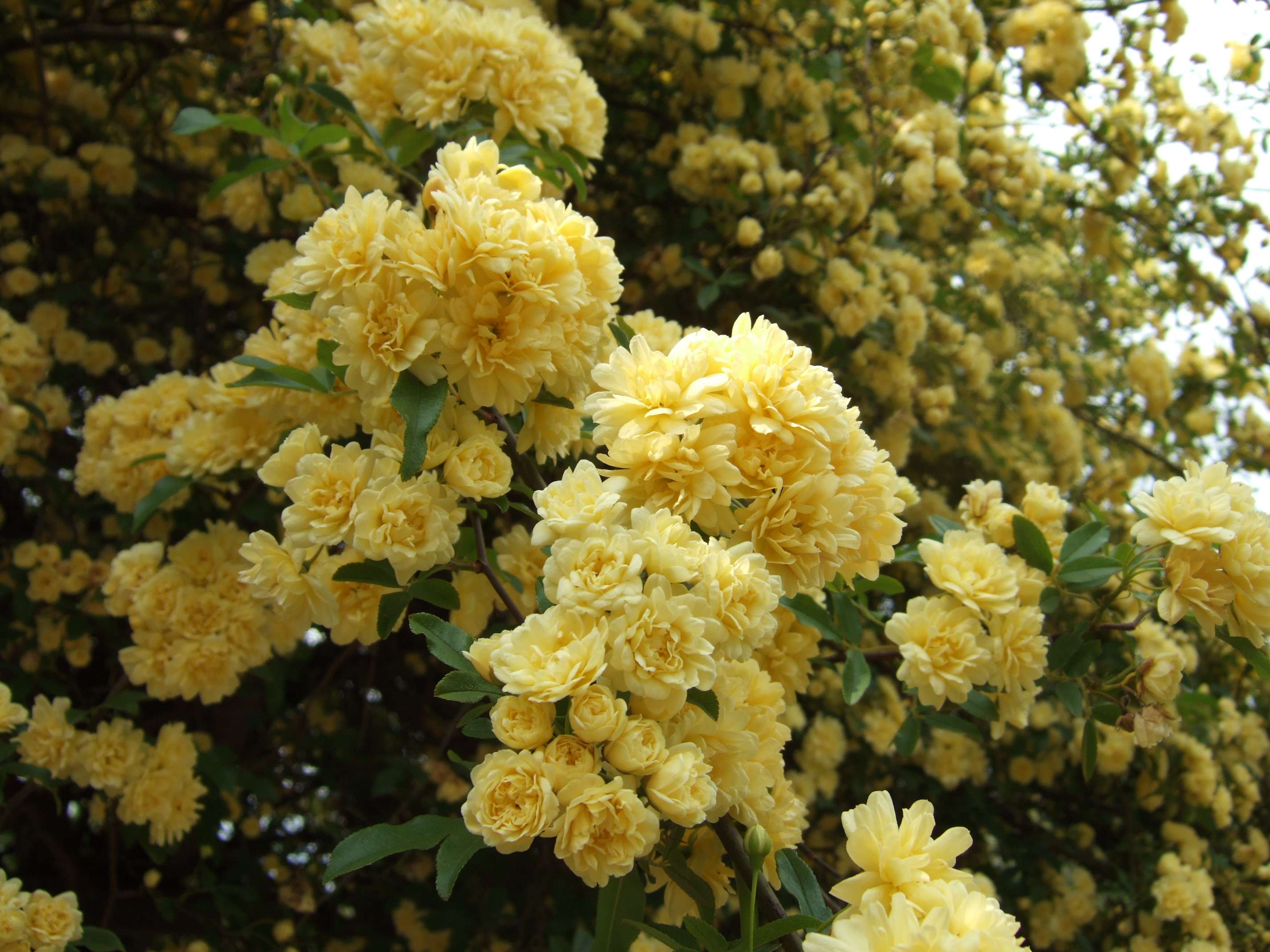 Rosa banksiae var. lutea